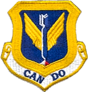 Emblem of the USAF 305th Bomb Group (Medium)